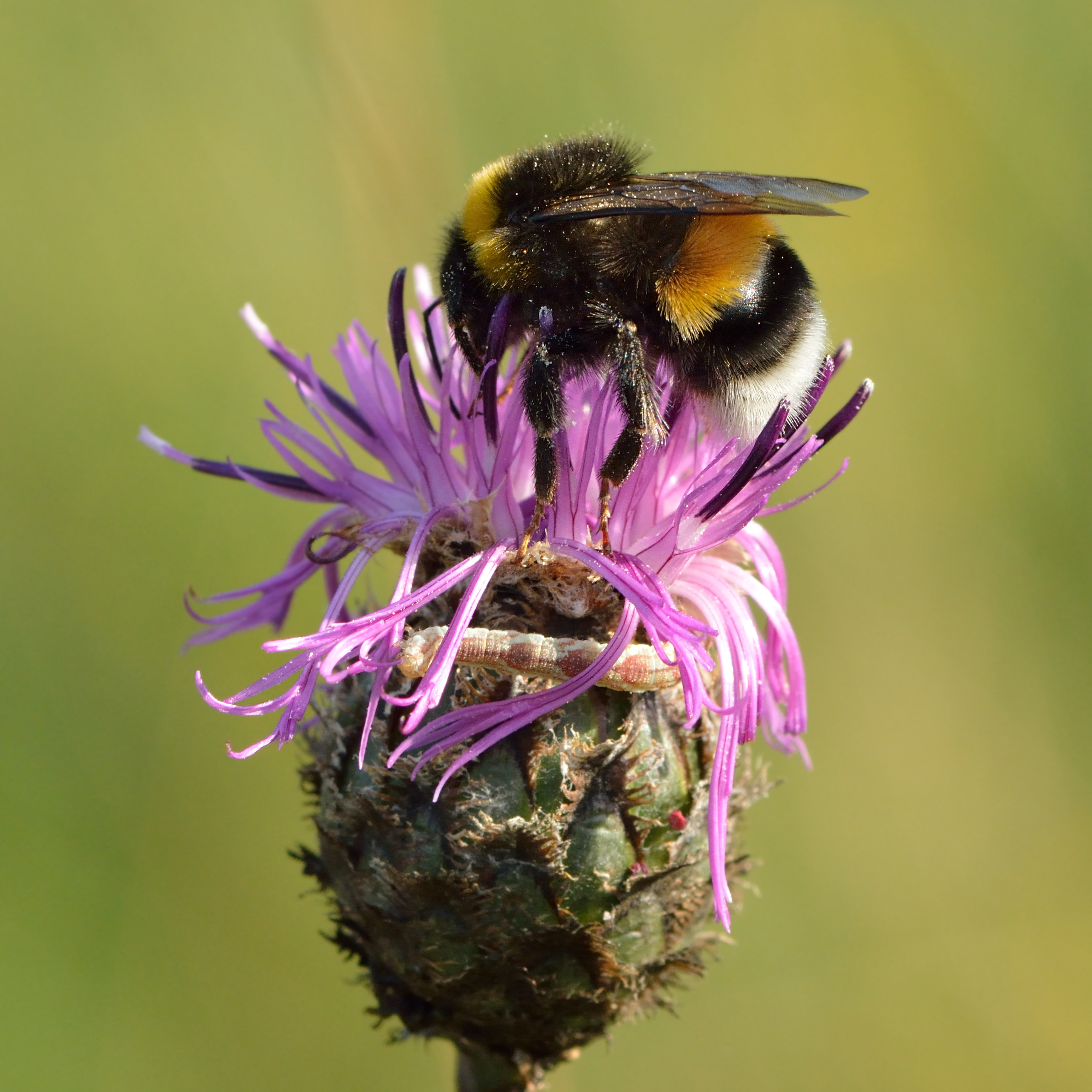 White-tailed bumblebee (Bombus lucorum) on the greater knapweed (Centaurea scabiosa). Keila, Northwestern Estonia.